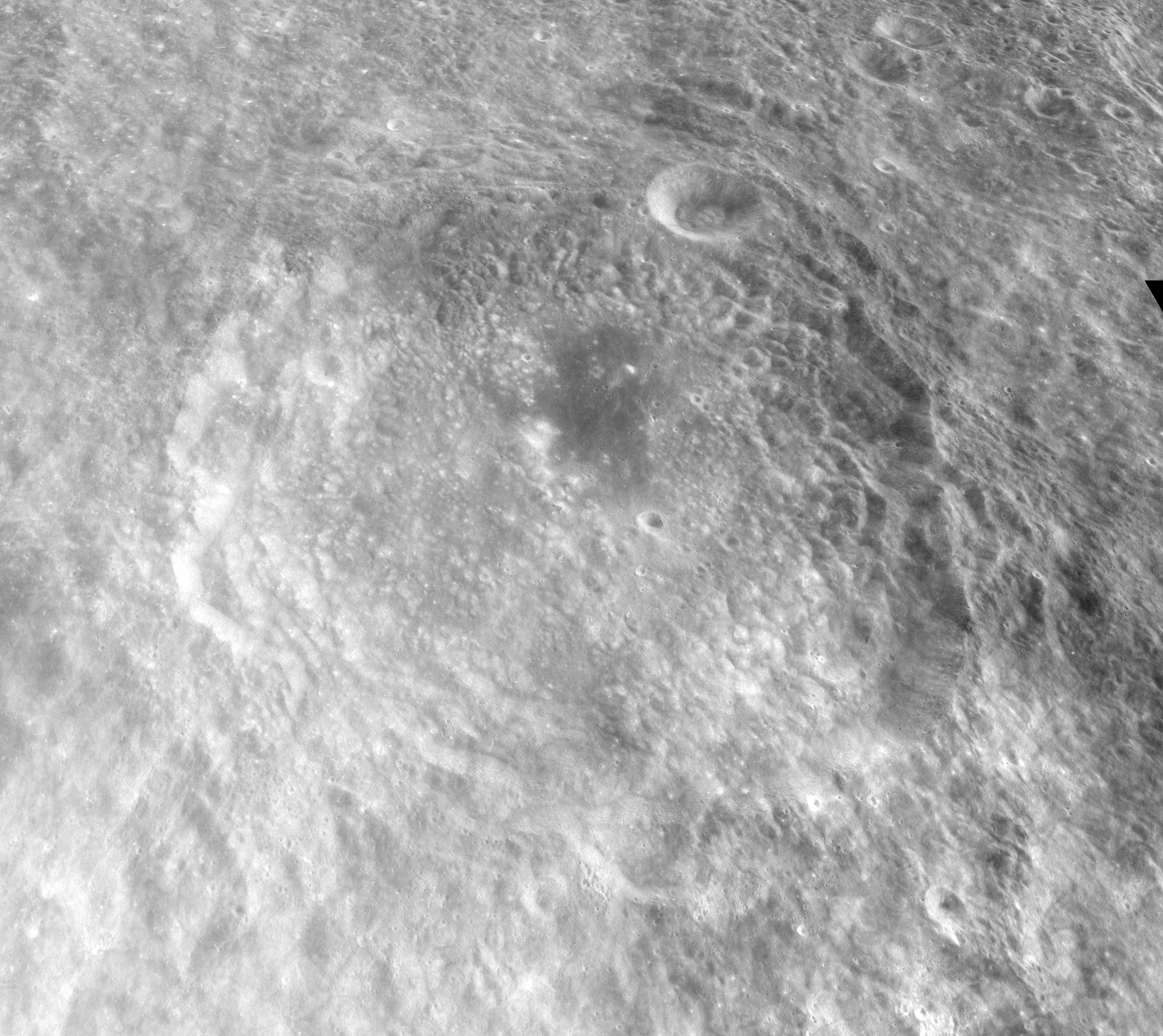 Langemak, on the moon.